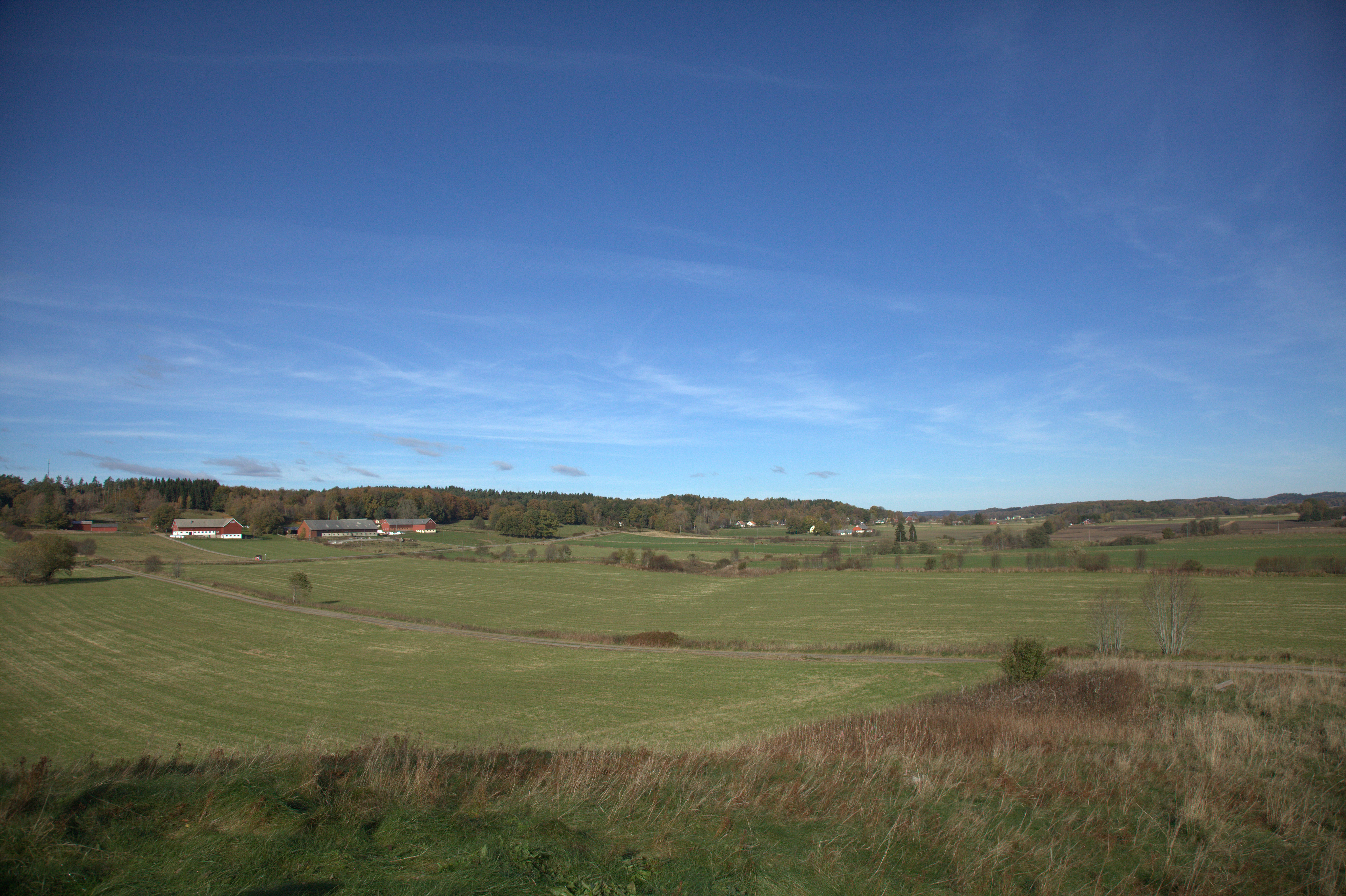 Location of where the battle of Axtorna took place in 1565. Photo is facing north from a strategic viewpoint in the middle of where the battle took place and where there now are information signs about the battle.